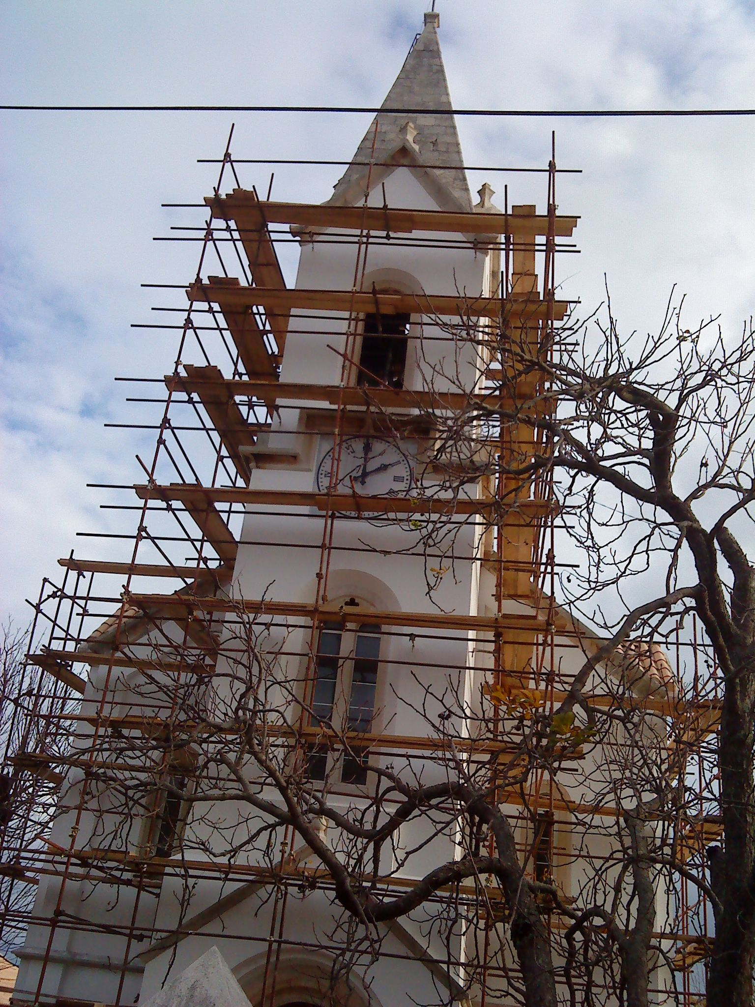 St. Blaise church in Janjina